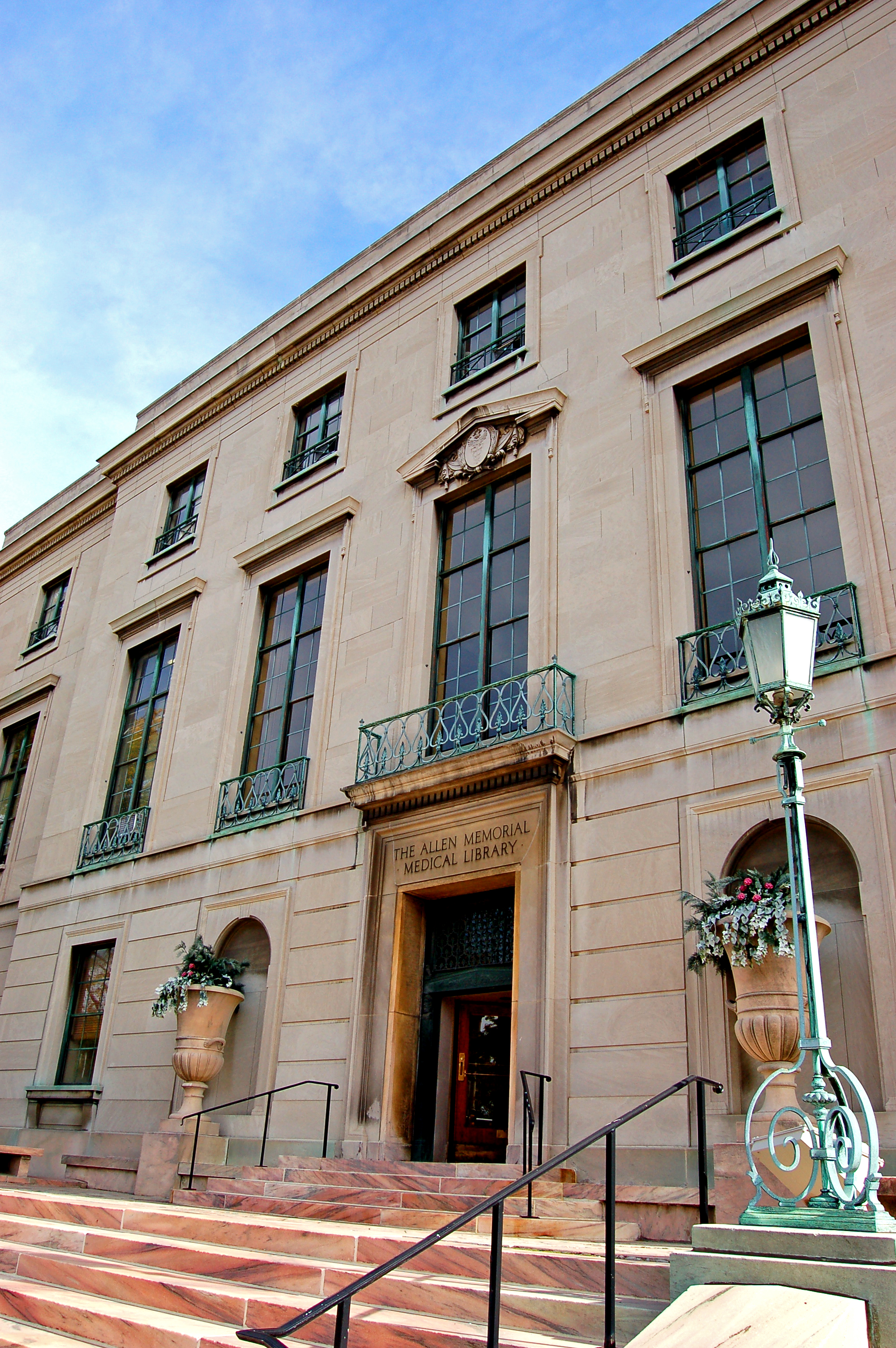 Front facade of the Allen Memorial Medical Library at Case Western Reserve University, in Cleveland, Ohio.